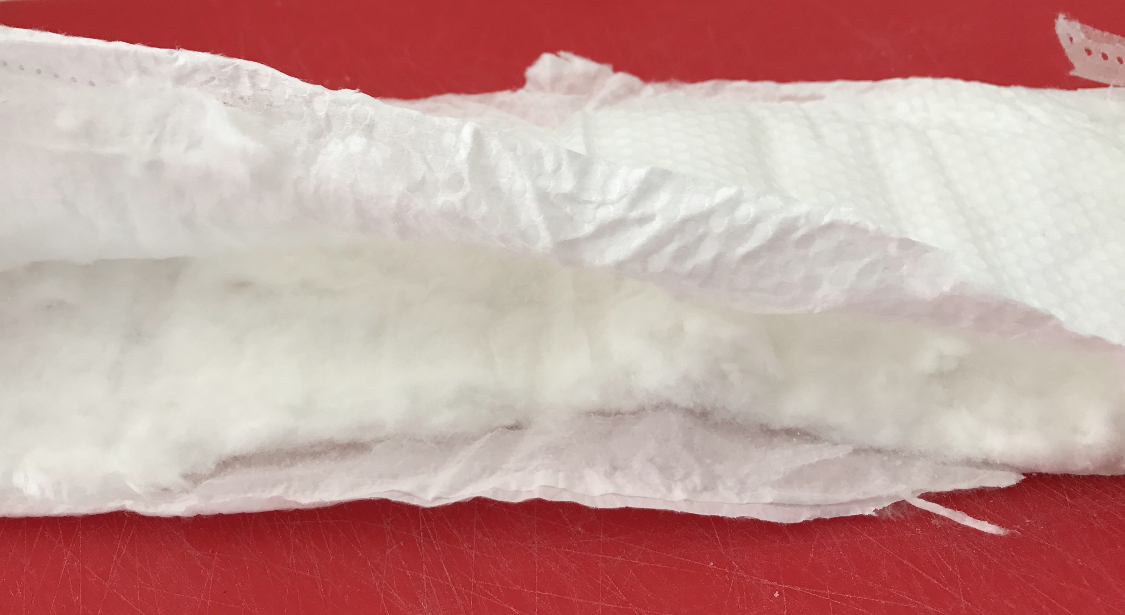 Baby Diaper Nappy Disposable